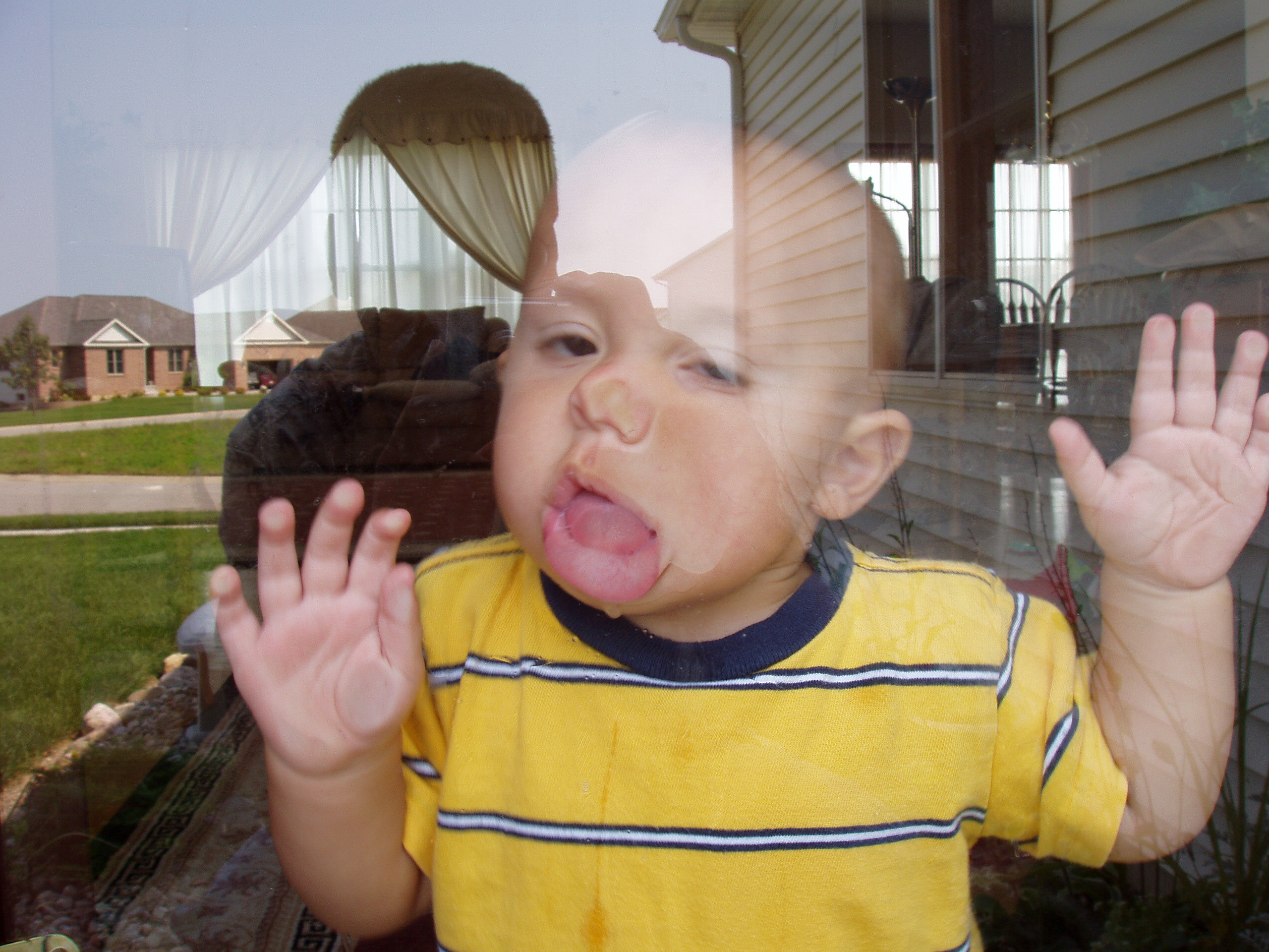 Family snapshot of a toddler, illustrating how snapshots generally capture memorable moments with family in imperfect images. In this case, glare weakens the image and exposes the photographer. Photo shot by Derek Jensen (Tysto), 2002-September-07